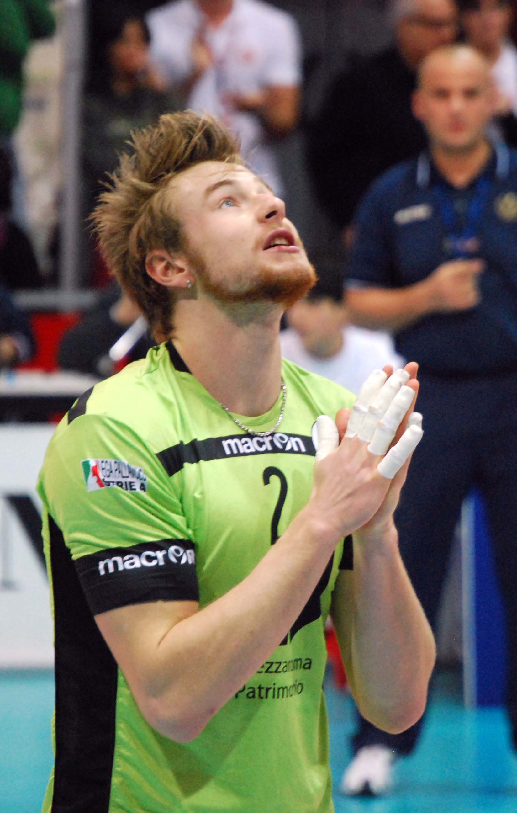 I took this pic during a volleyball match in Piacenza